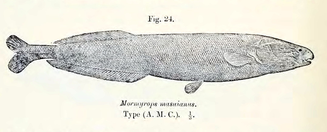 Mormyrops masuianus Boulenger, 1898